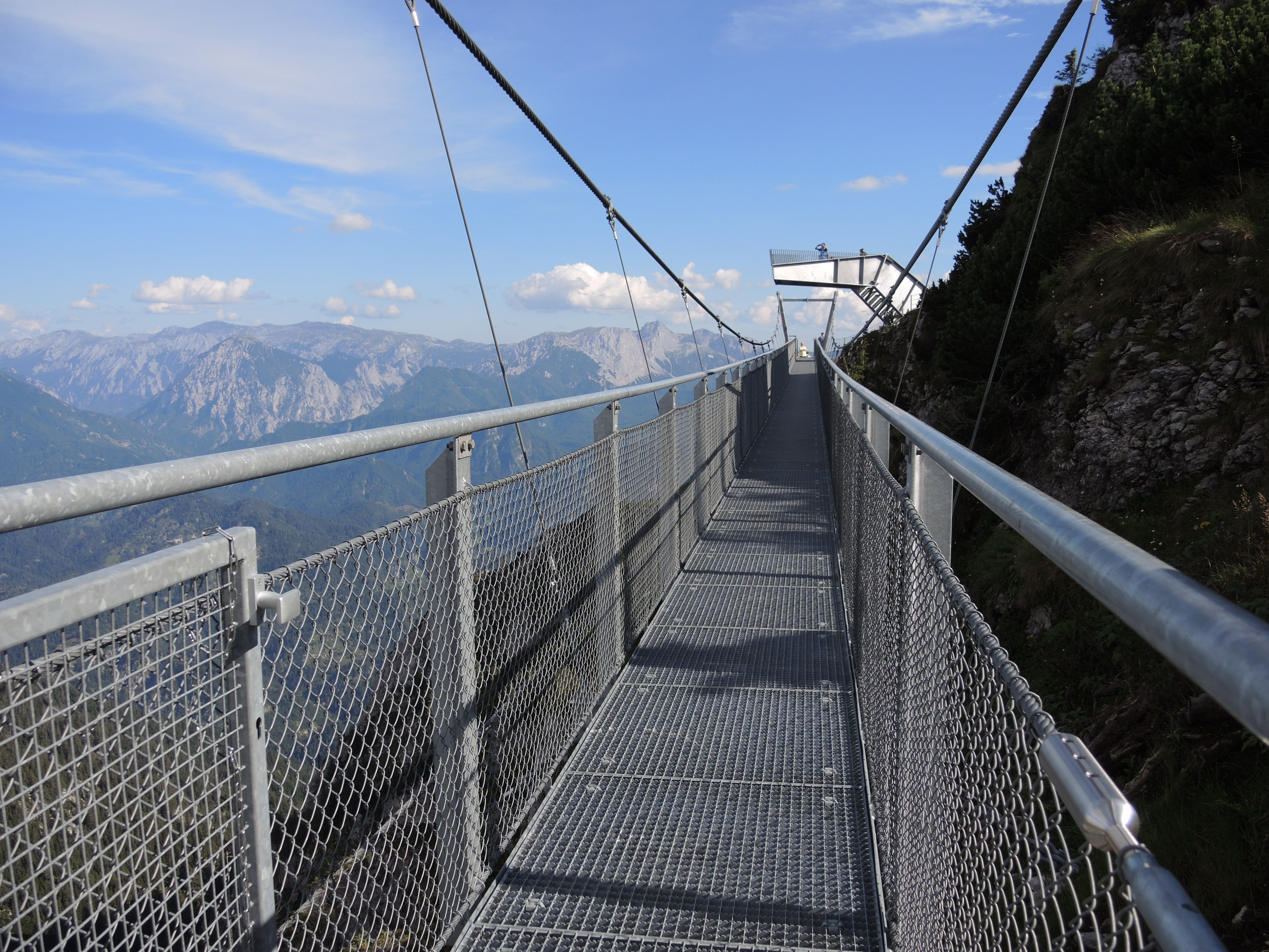 Viewing platform at Hochkar, Austria